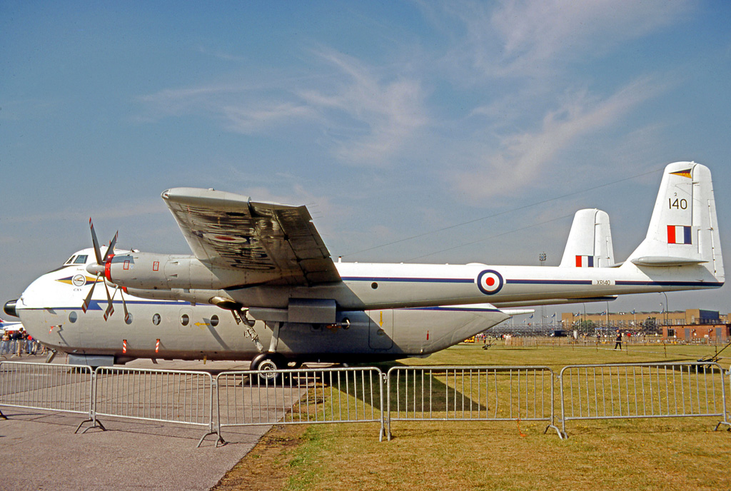 Armstrong Whitworth (HS) Argosy E.1 XR140 of No. 115 Squadron in 1977